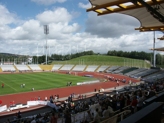 Don Valley Stadium. Built for the 1991 World Student Games - now home to Rotherham Utd FC, Sheffield Eagles rugby league team and host venue for the 2008 British Transplant Games